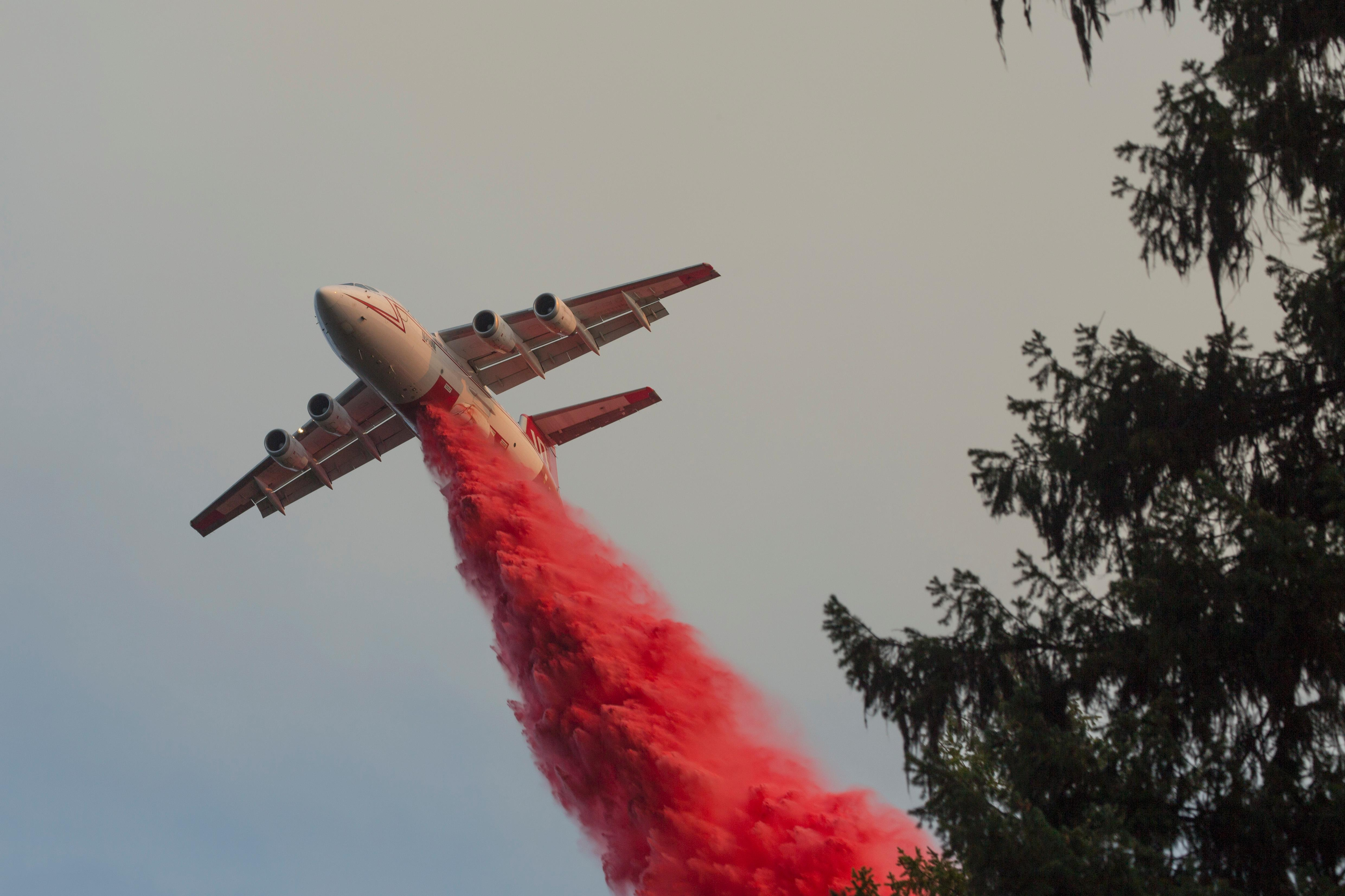 Heavy air tanker (bae-146) drops fire retardant on the Happy Camp Complex Fire in the Klamath National Forest in California, which began on Sep. 17, 2014 from lightening and has consumed 125, 788 acres to date and is 68% contained. U.S. Forest Service photo.